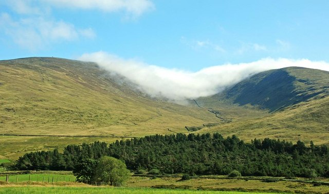 Slieve Meelmore and Slieve Meelbeg A low cloud passing between Slieve Meelmore (left) and Slieve Meelbeg.